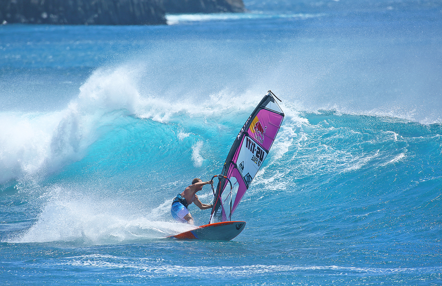 Wave Windsurfing, Bottom Turn